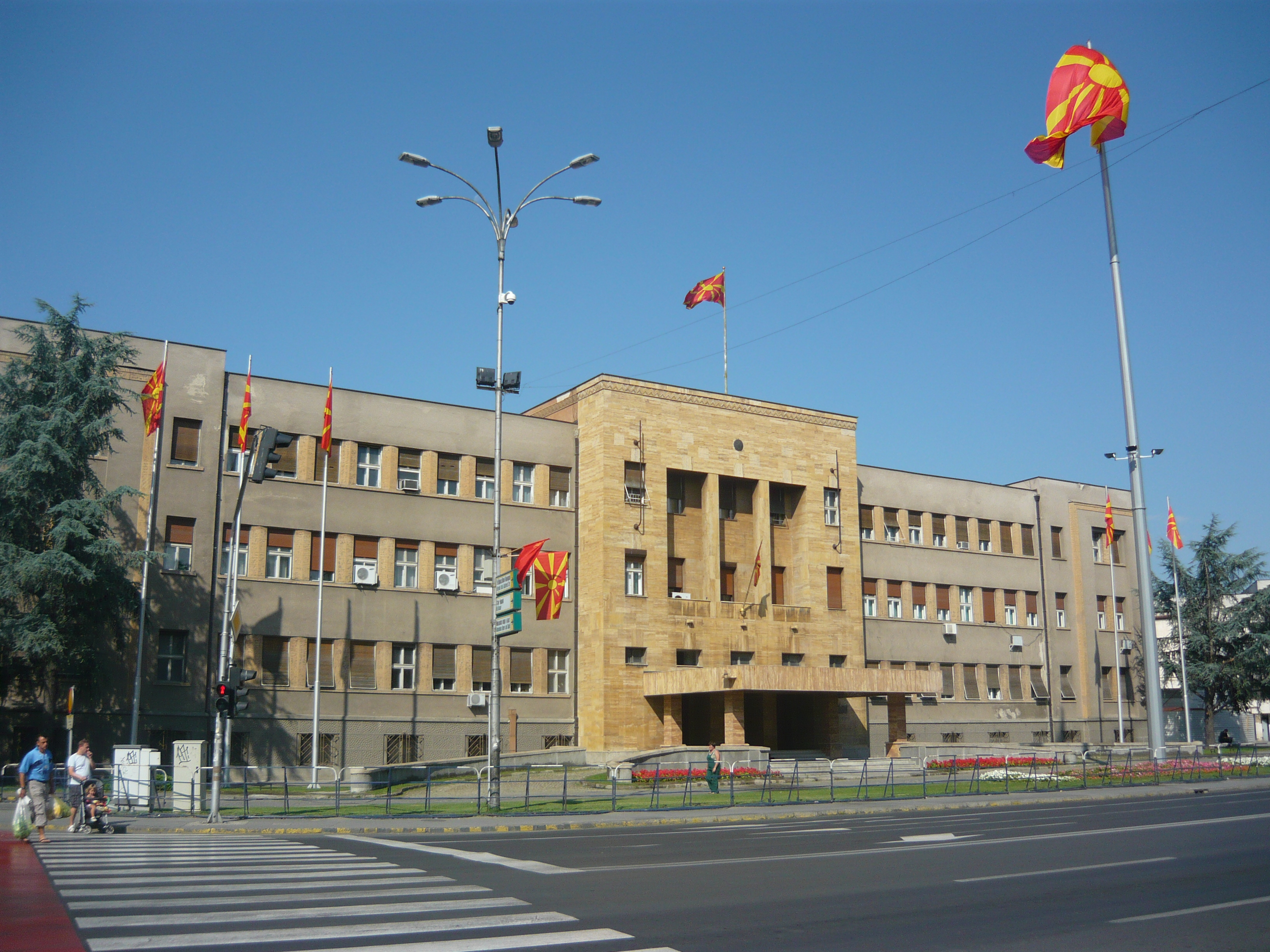 The Sobranie, the Macedonian parliament.